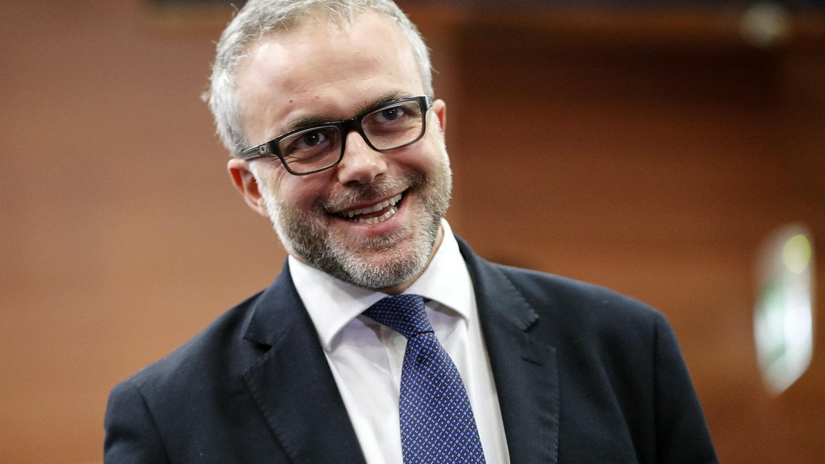 Ernesto Mari Ruffini